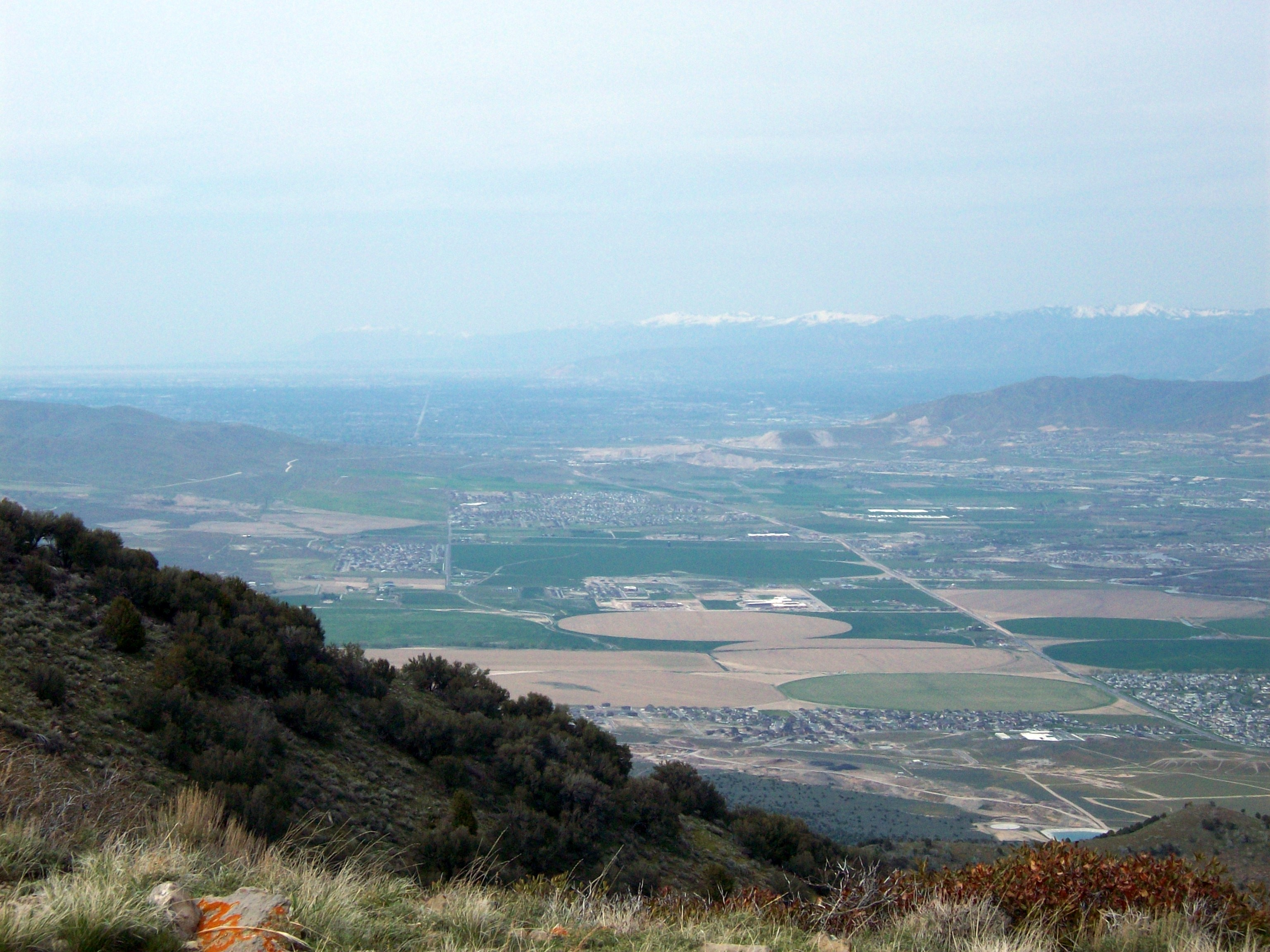 Salt Lake City, looking north from Lake Mountain, Utah.View (NNE) overlooking Lehi, Utah cityscape; the Traverse Mountains-(photo right, ~8 mi) on city north perimeter. The Oquirrh Mountains at left. The Wasatch Range and SLC on horizon, past the Traverse Mountains.(Salt Lake Valley, (north), Utah Valley (north section), center, and photo bottom)